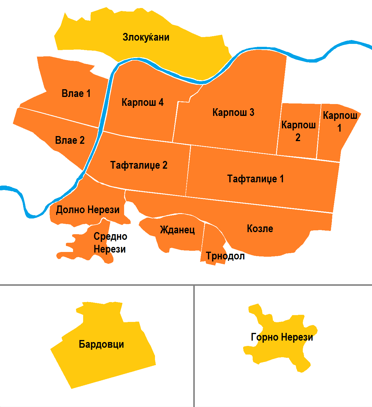 Division of the municipality in settlements, as well as the three villages